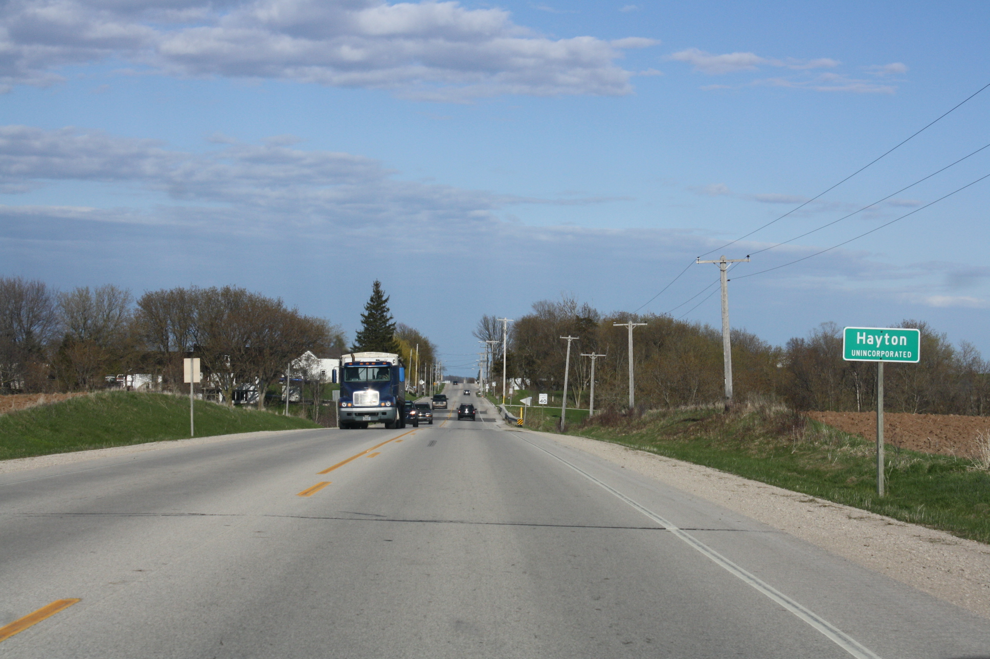 Looking east at the sign for Hayton, Wisconsin.